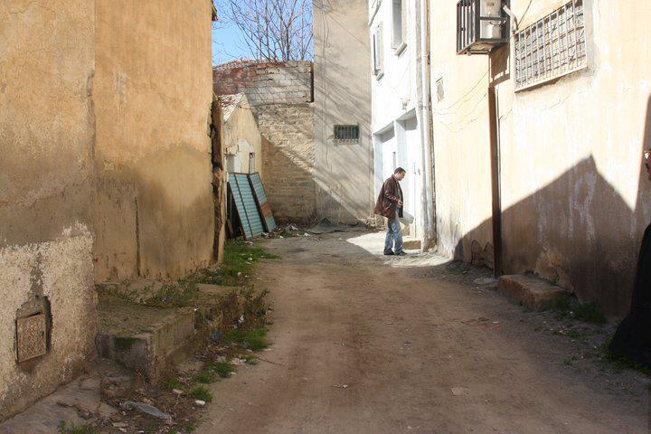 حي الفيبور